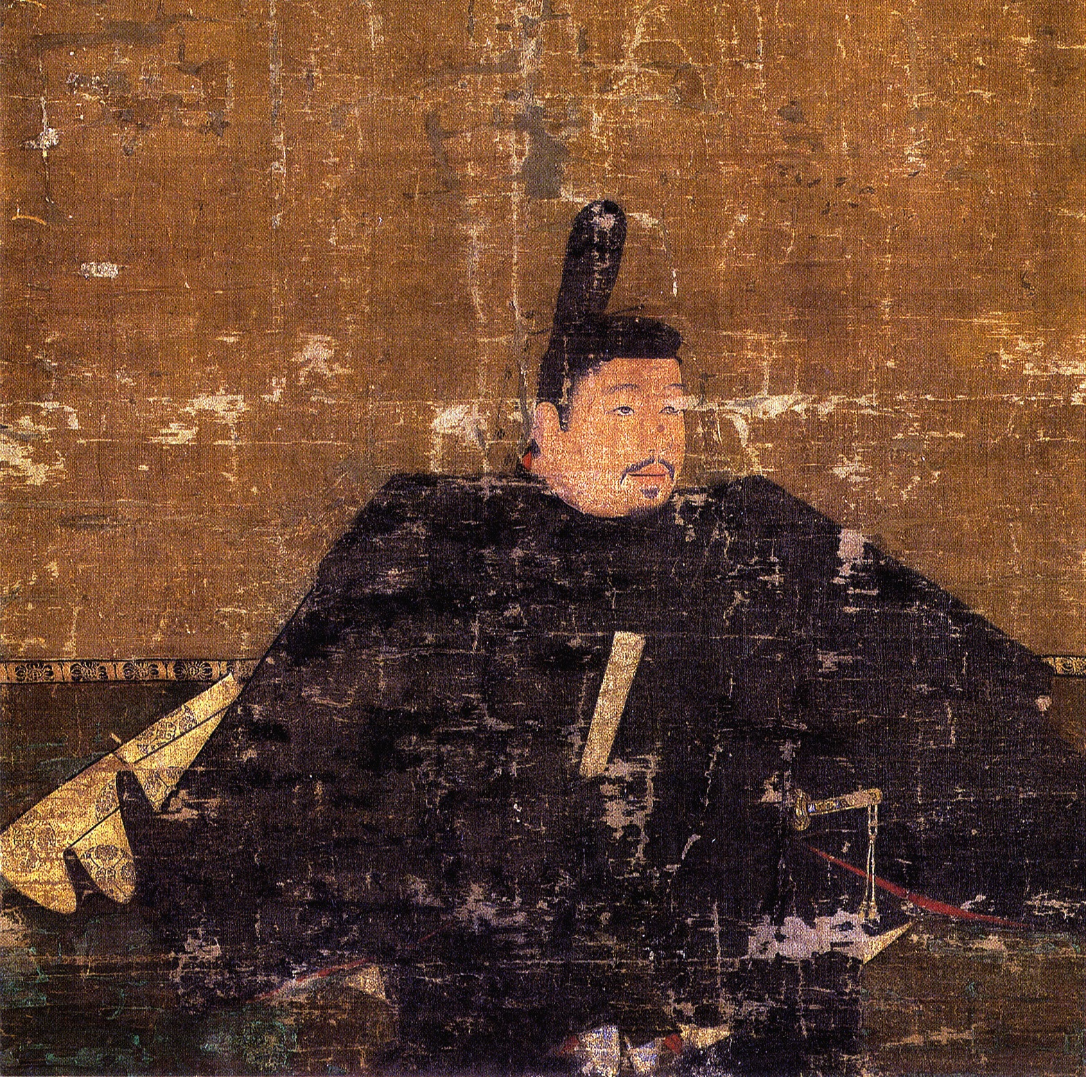 Portrait of Ashikaga Yoshiakira